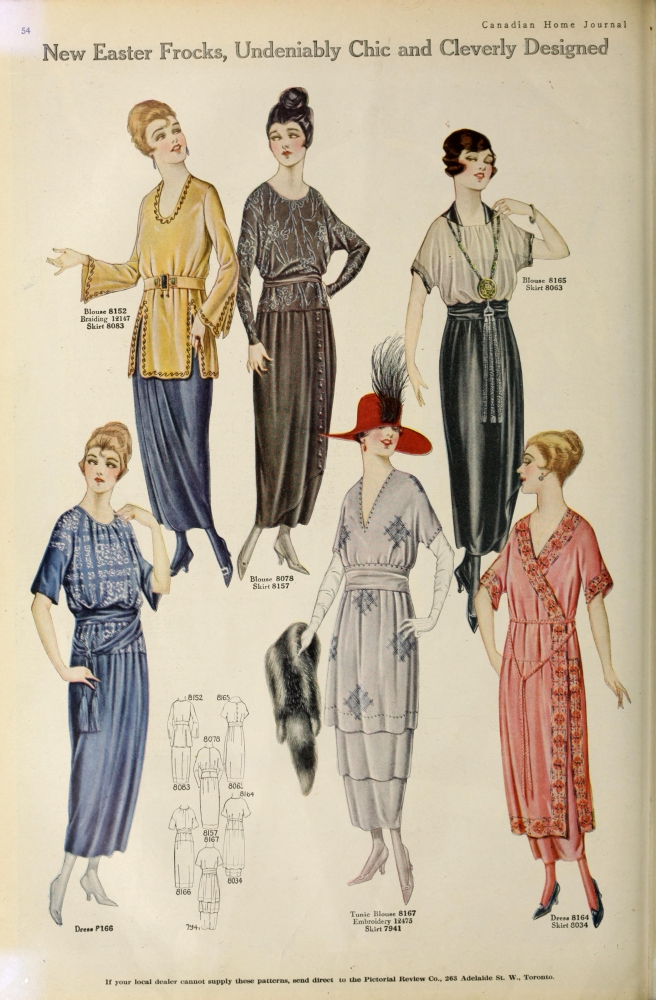 Ladies shown with the lattest fashions of 1920